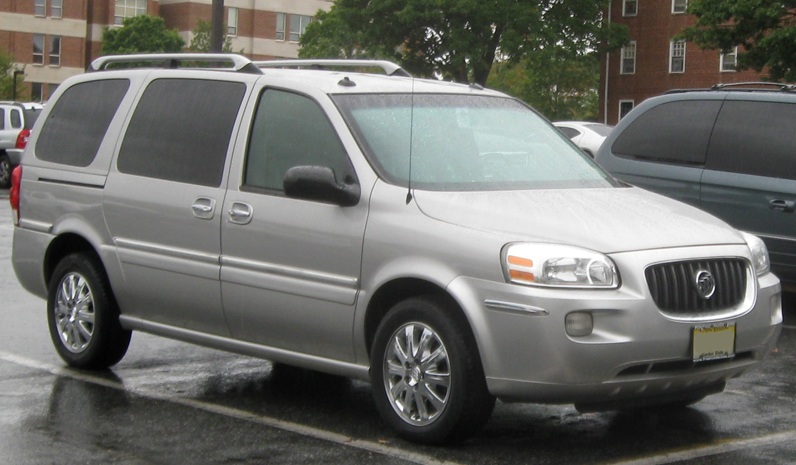 2005-2007 Buick Terraza photographed in College Park, Maryland, USA.